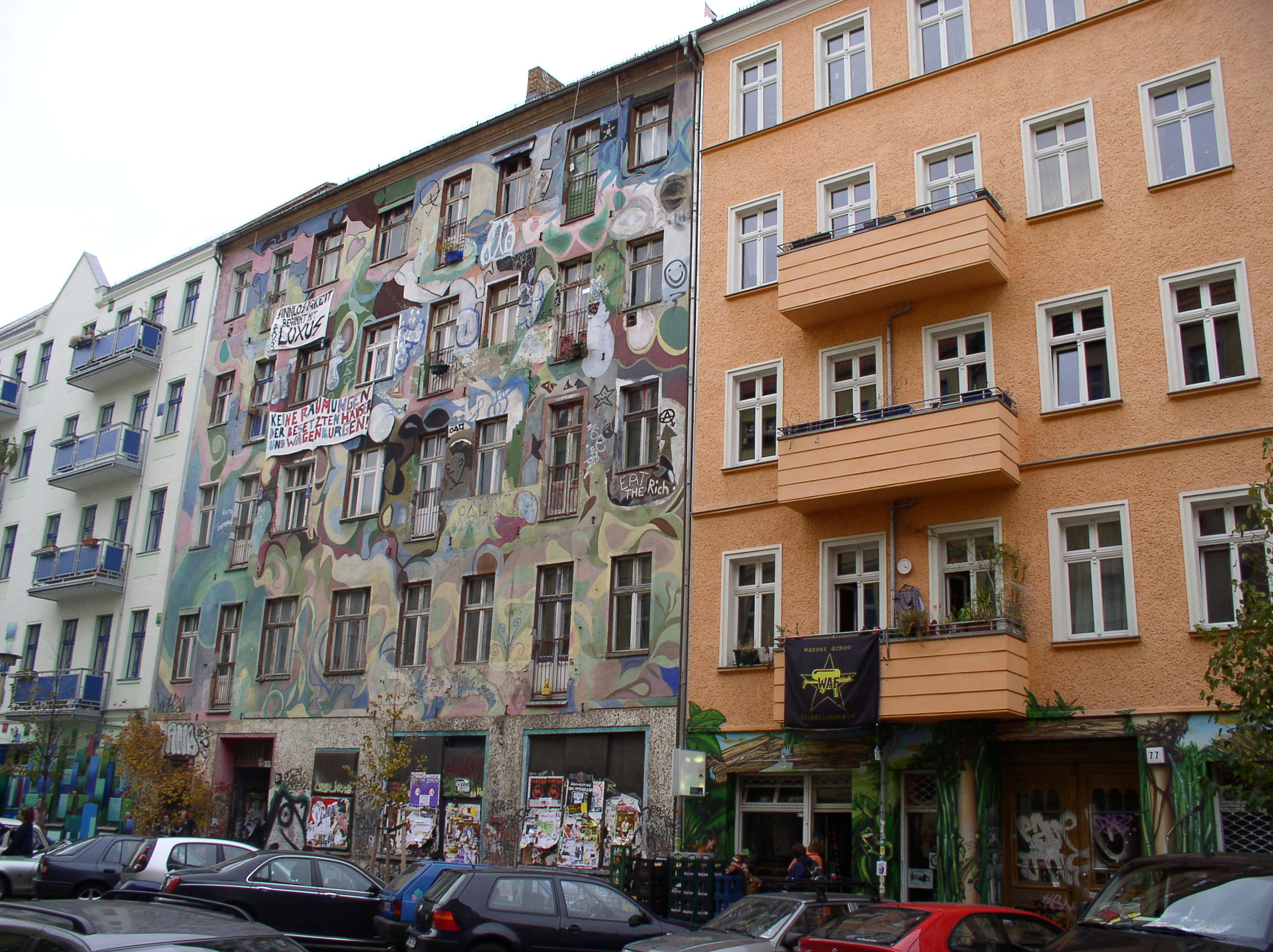 A squat in Rigaer Straße, Friedrichshain, Berlin. Note the banner for the Water Armee Friedrichshain on the lower right balcony.